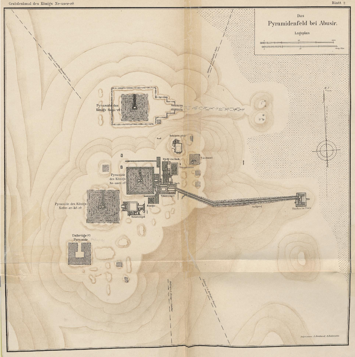 A map of the Abusir necropolis as discovered by Borchardt between 1902 to 1908. It lacks Khentkaus II's pyramid, and misidentifies the cult pyramid of Nyuserre's pyramid as belonging to his consort. Taken from Ludwig Borchardt's Das Grabdenkmal des Königs Ne-User-Re (1907).